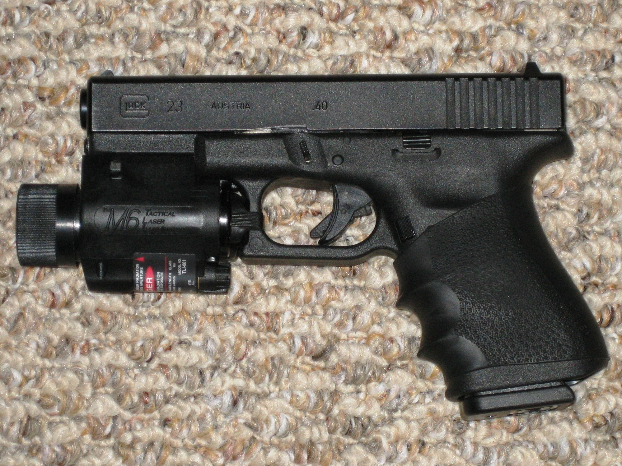 A Glock 23 handgun with a grip customization and rail-mounted Insight M6 Tactical Illuminator with Laser Sight.